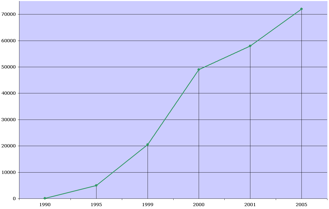 Trivia graphic of the number of know virus on each year.